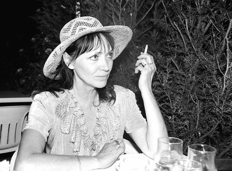 Anna Karina special guest star of festival "Sous les projecteurs" (Lucille Méziat - Cédric Walter) on July 1994 at Villandraut (France).